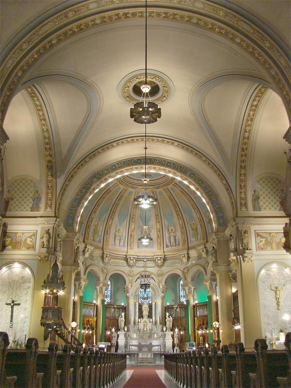 Church of Saints-Anges Gardiens, Lachine, Quebec, Canada. Decorated by Ozias Leduc in 1930-31.